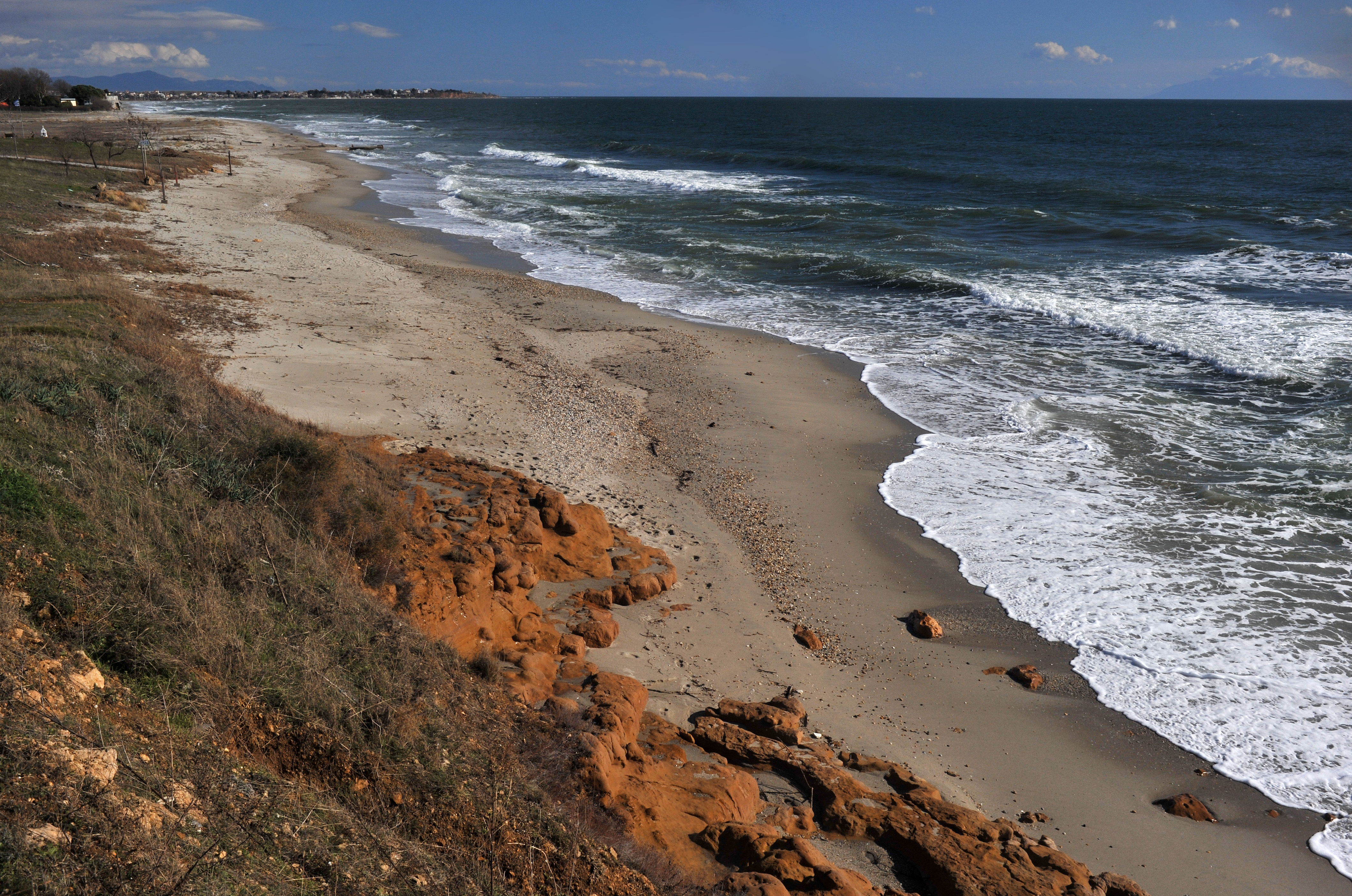 Village of Fanari, Rhodope Prefecture, Thrace, Greece.